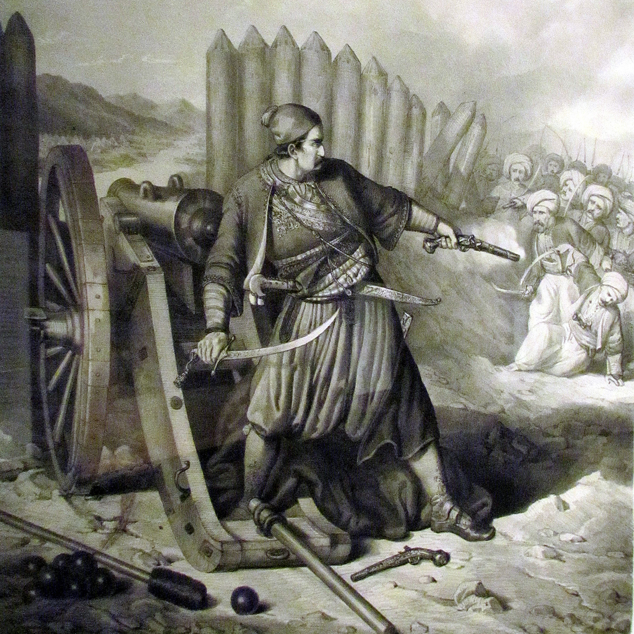 Anastas Jovanović, Rajić's Heroism, 1848, National Museum of Serbia